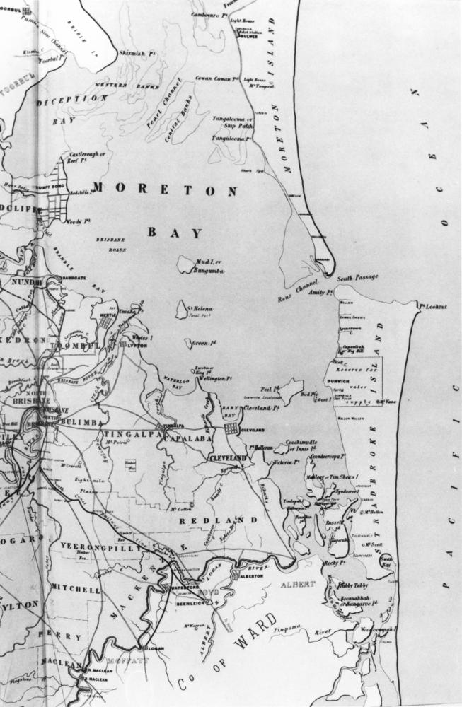 Map of Moreton Bay and surrounding land masses, ca. 1886 The map shows Moreton Island, Stradbroke Island before it separated into North and South Stradbroke, and the mainland coastline from Deception Bay in the north to the Pimpama River in the south. Bayside suburbs are named, as are coastal landmarks such as Skirmish Point, Cleveland Point and Rocky Point at the mouth of the Logan River.